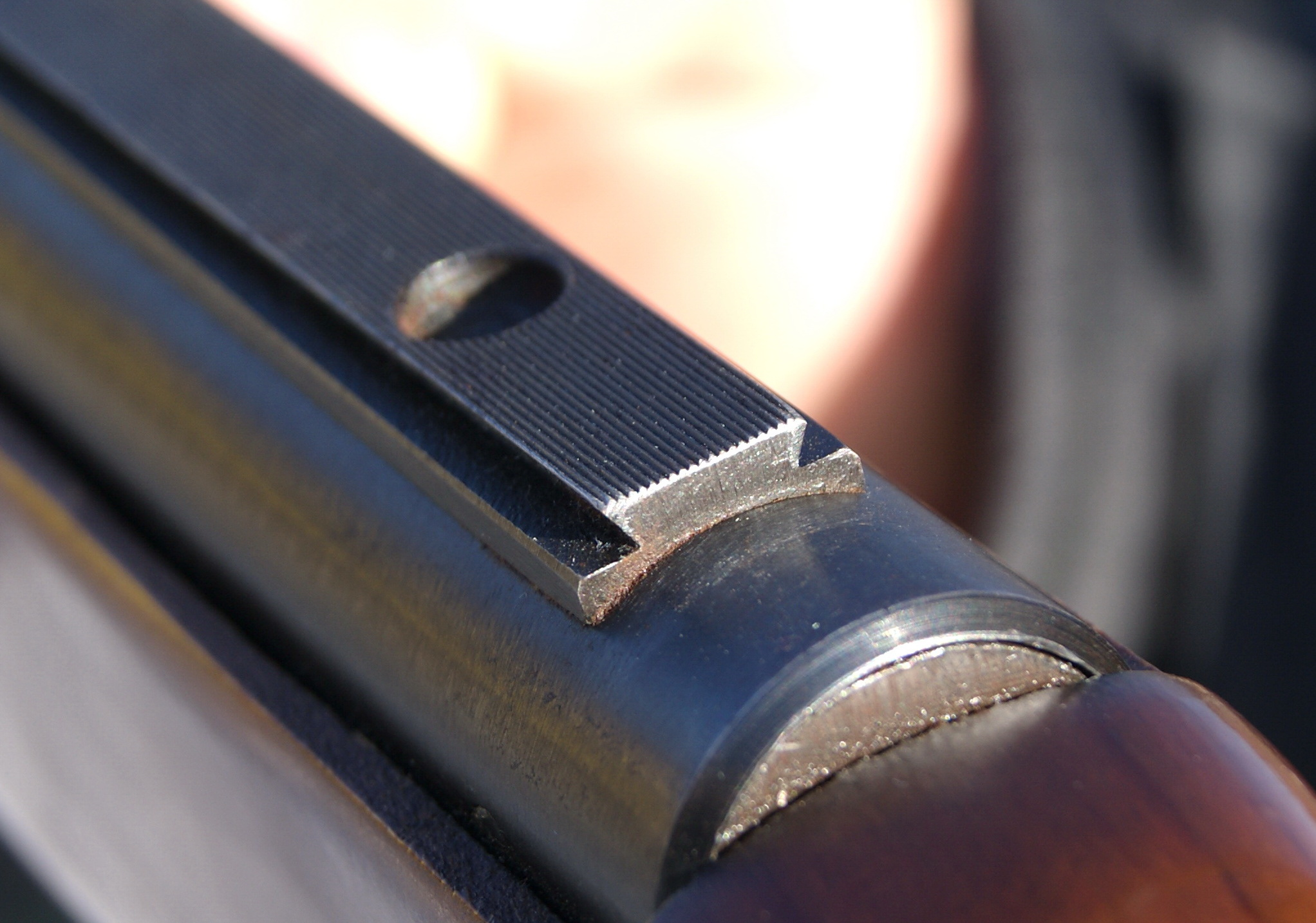 dovetail joint of air rifle for Telescopic sight